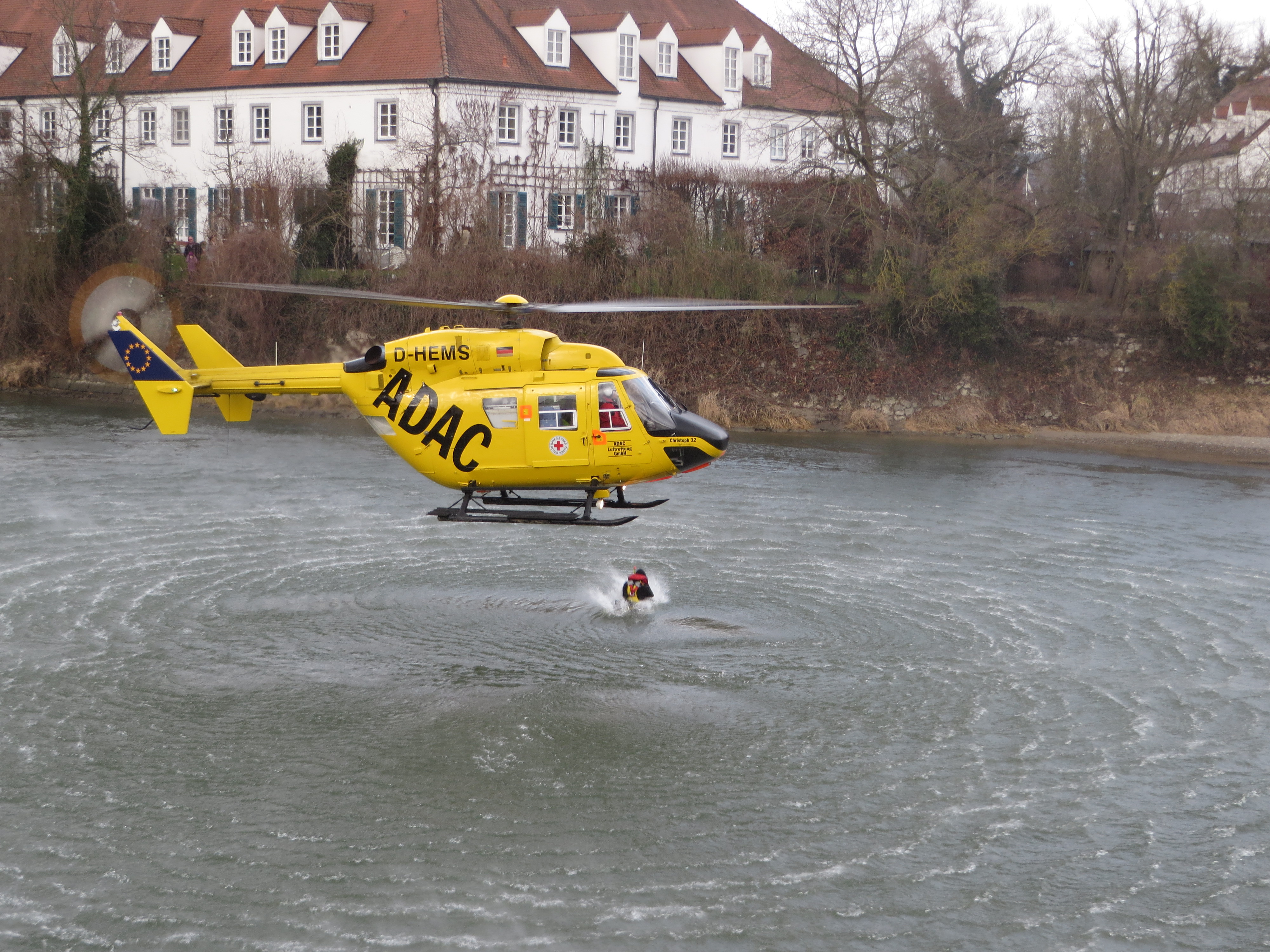 Rescue helicopter Christoph 32 during a water rescue exercise in Neuburg a. d. Donau (Germany).